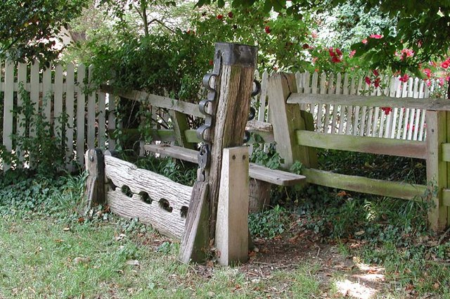 Stocks outside St Mary's Church, Brent Pelham, Herts